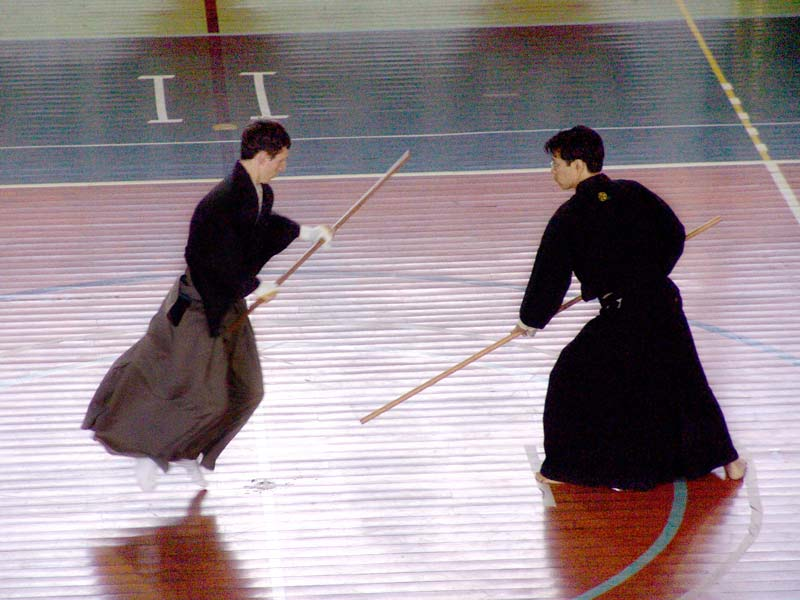 Bojutsu (long staff) Niten Ichi Ryu technique, executed by Sensei Jorge Kishikawa